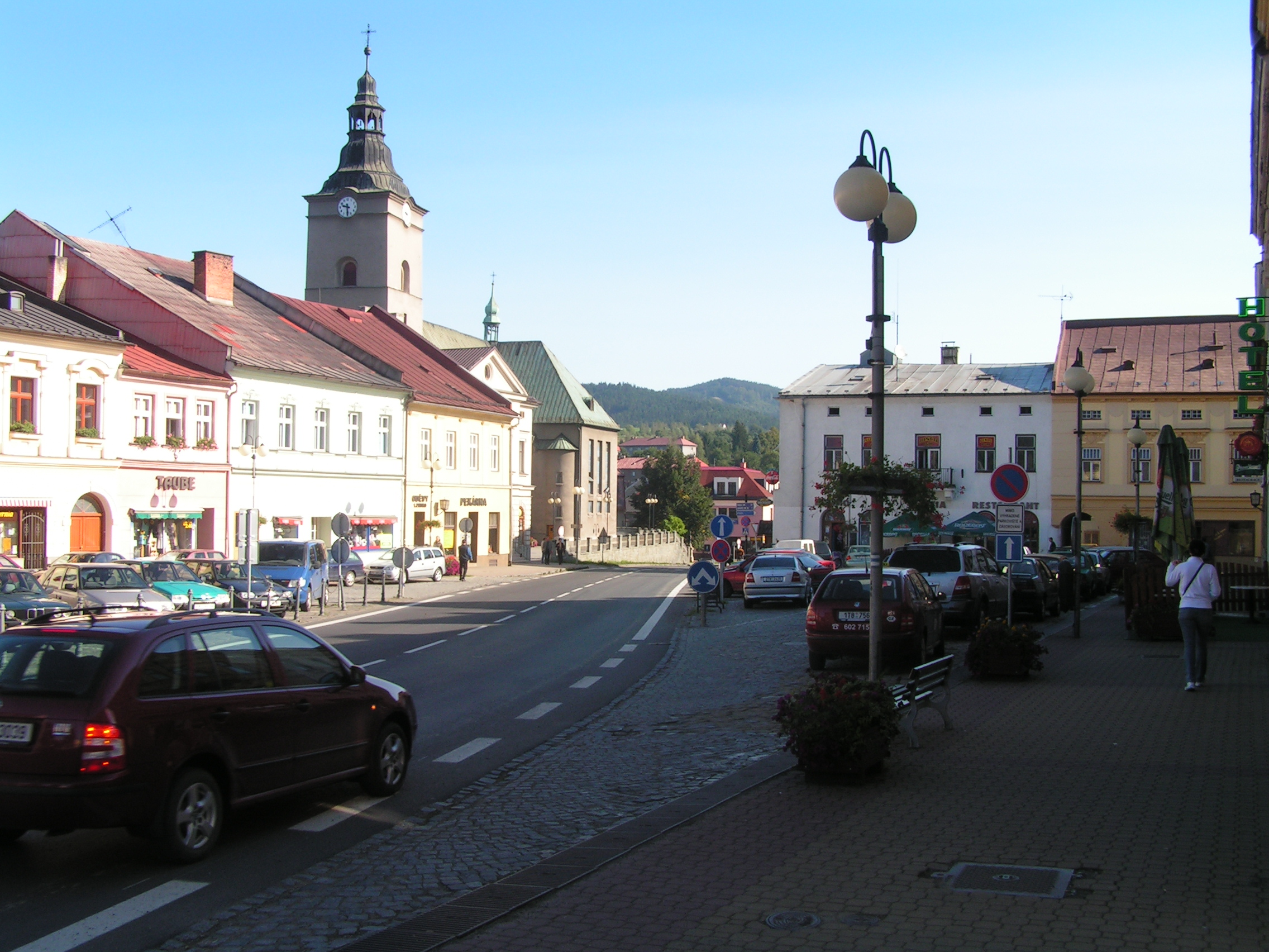 Town square in Jablunkov (Jabłonków)